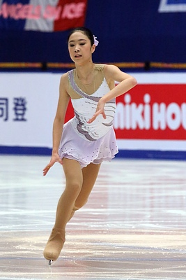 Photos – Cup of China 2013 – Ladies (Guo Xiaowen)